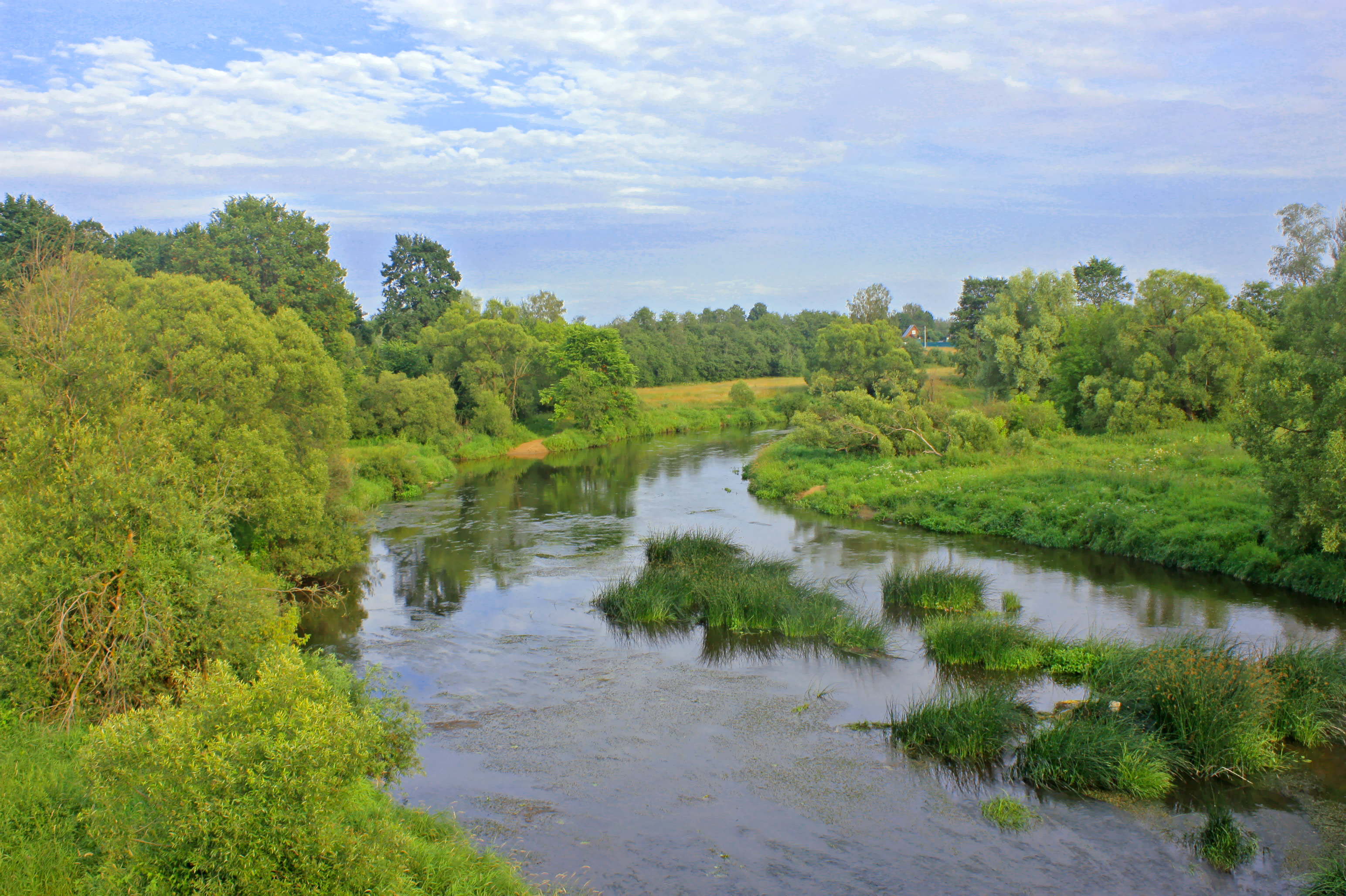 River Dubna in Moscow Oblast